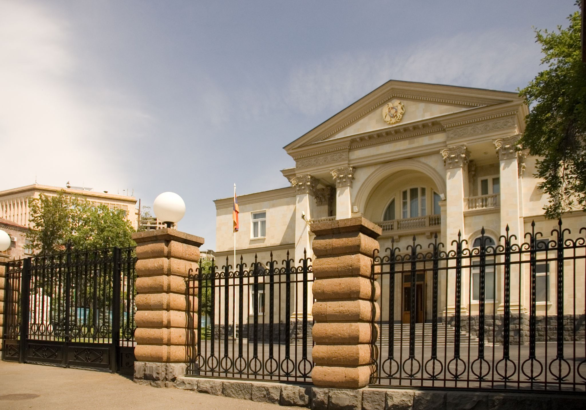 Prime Minister's Residence, former Presidential Palace, in Yerevan. As many post-soviet states, Armenia is no exception when it comes to police (who happen to be still wearing the same outfits they wore in USSR) harassing you for taking photos of the government buildings.